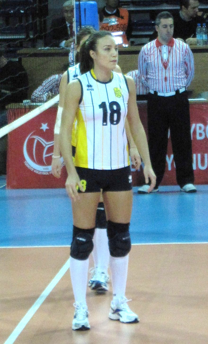 Turkish volleyball player Gizem Giraygil